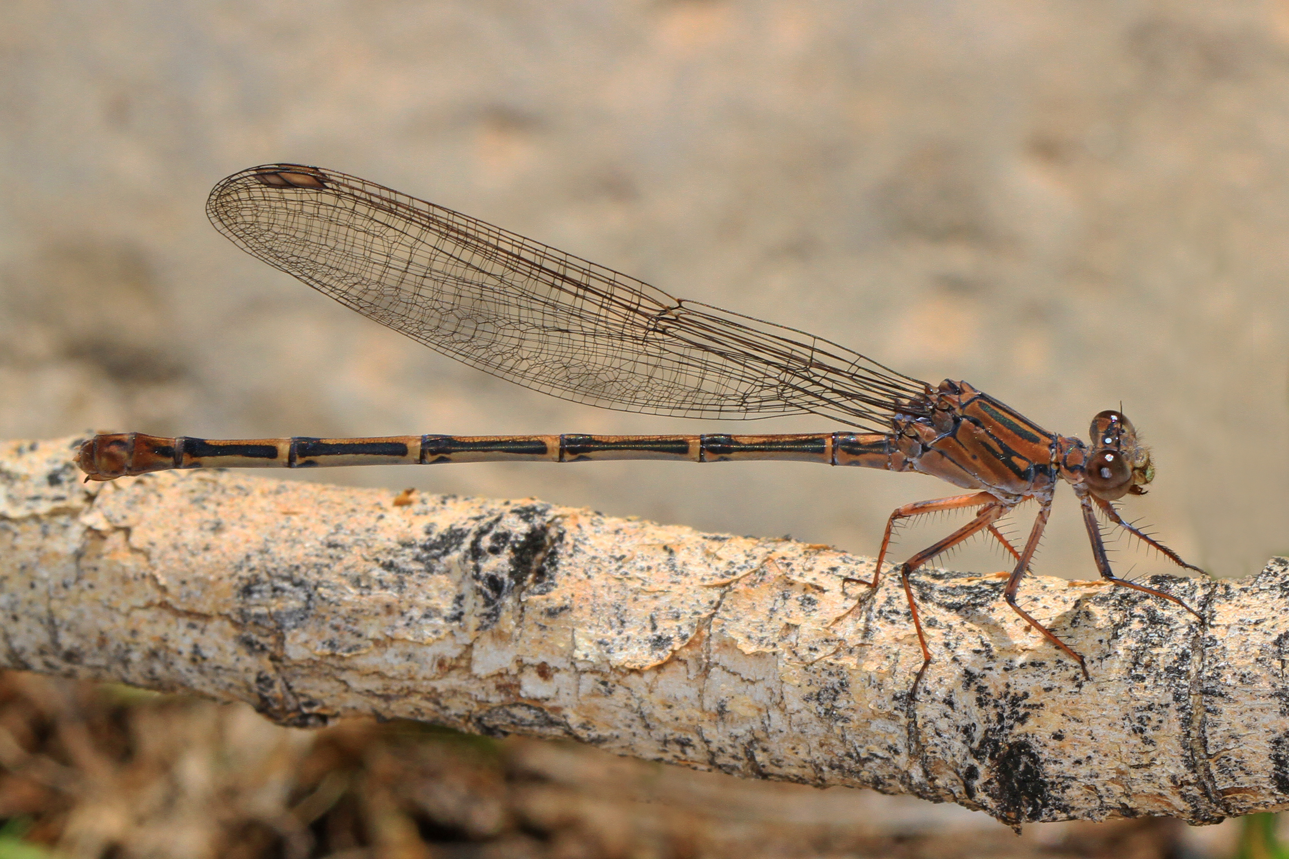 Sooty Dancer - Argia lugens, Zion National Park, Springdale, Utah